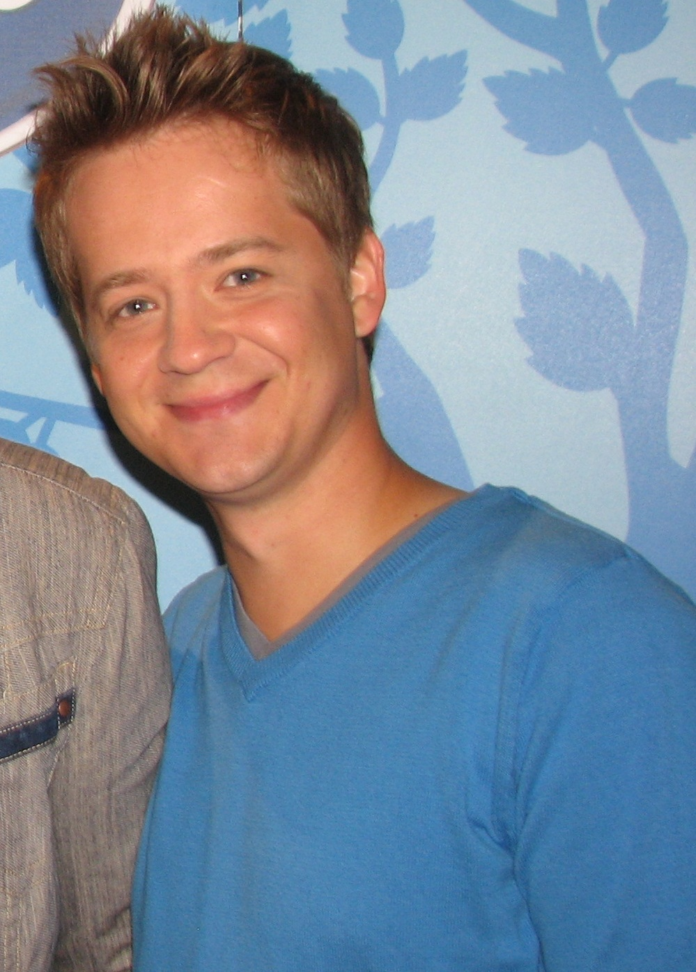 Jason Earles at the Disney Store in August 2010